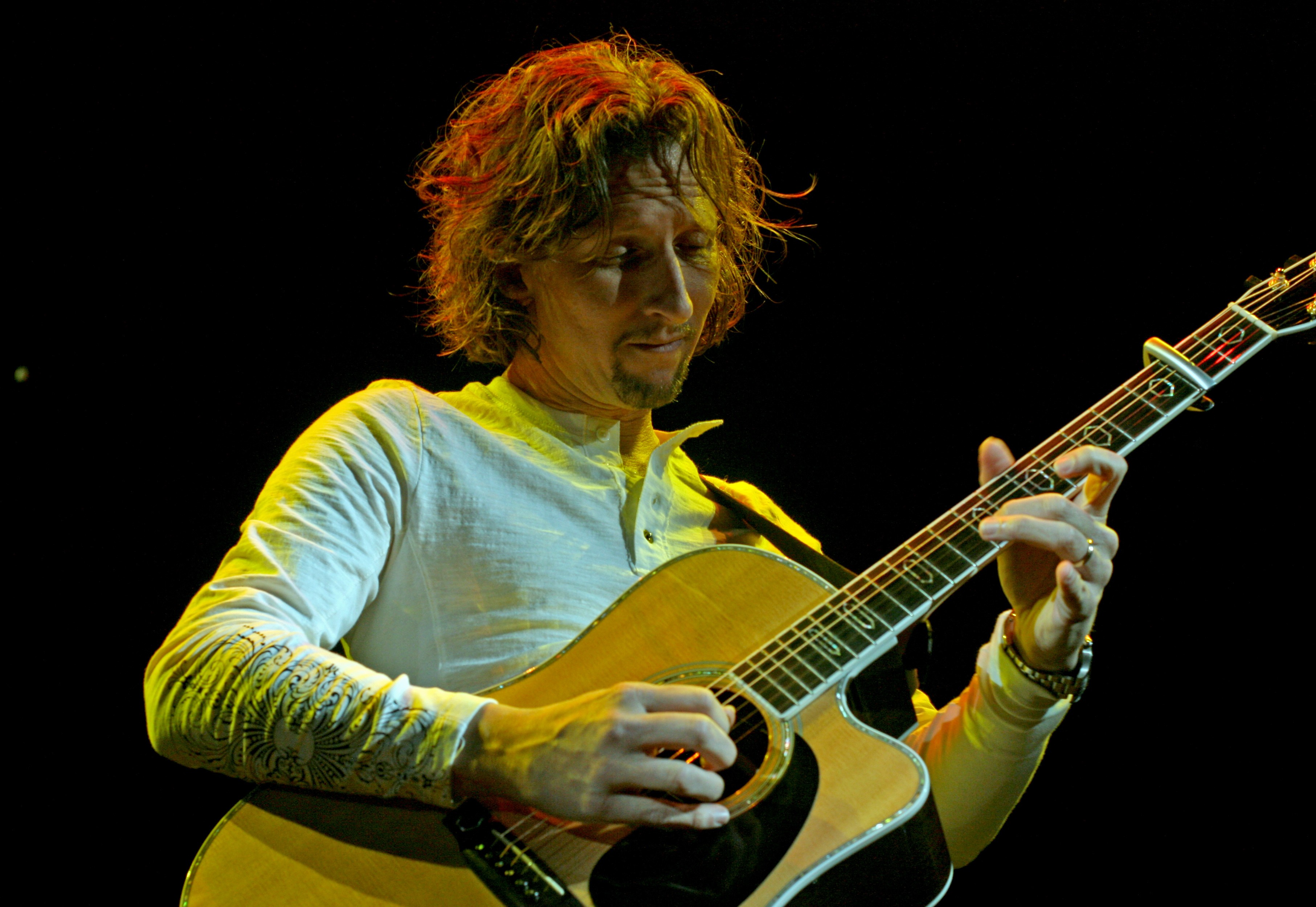 John Wesley (Wes) onstage solo at the 2009 Marillion weekend in Montreal, Canada.